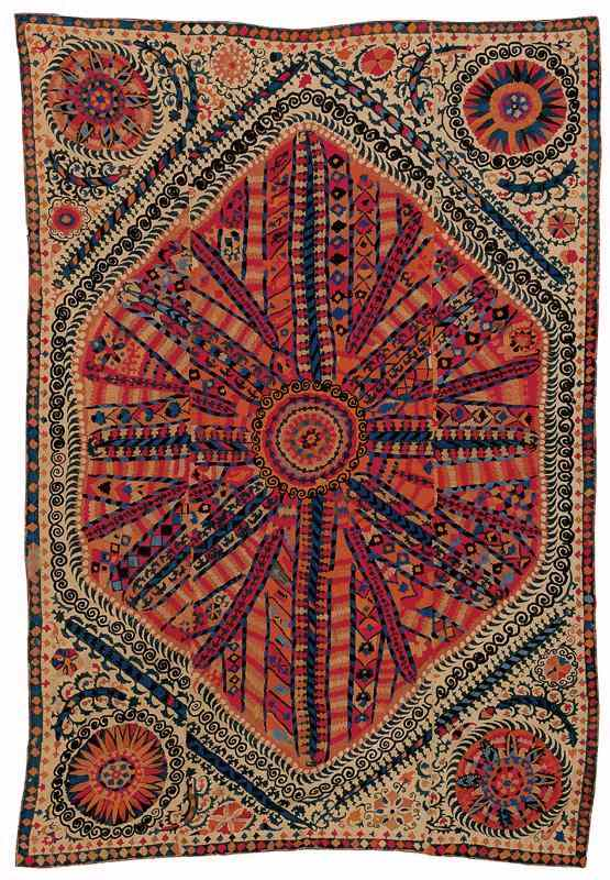 LARGE MEDALLION SUZANI EMBROIDERY, BOKHARA, UZBEKISTAN. Bokhara embroidery is also associated with Pakistan